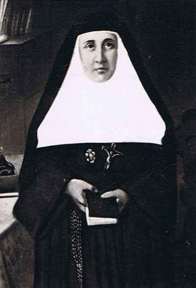 Blessed Maria Ràfols, devotional print